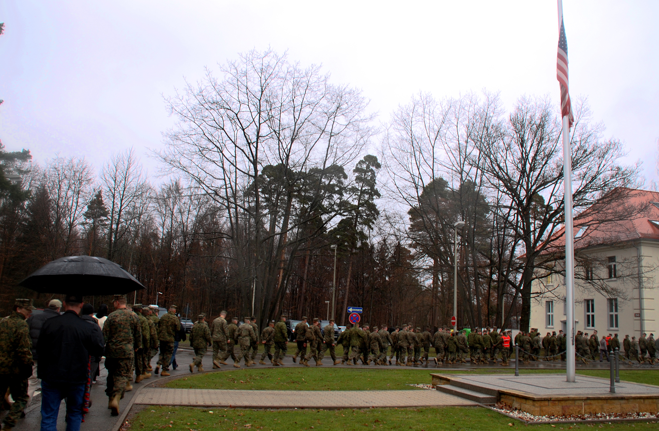 The Marines of Marine Forces Europe and Marine Forces Africa are joined by other residents of Panzer Kaserne during a unity walk in honor of African American Black History Month. The unity walk was a joint effort between U.S. European Command and U.S. Africa Command units at each barracks in the USAG Stuttgart garrison.